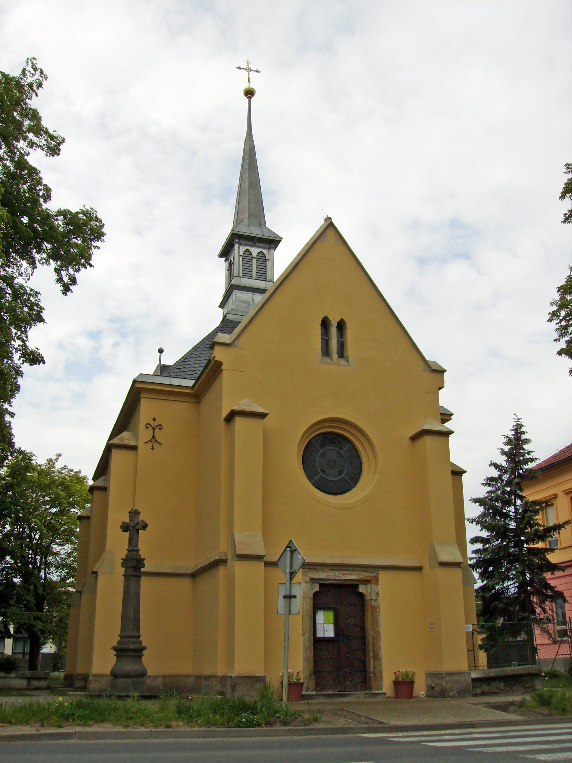 ST Florian church in Lázně Toušeň, Prague-East District, Czech Republic.